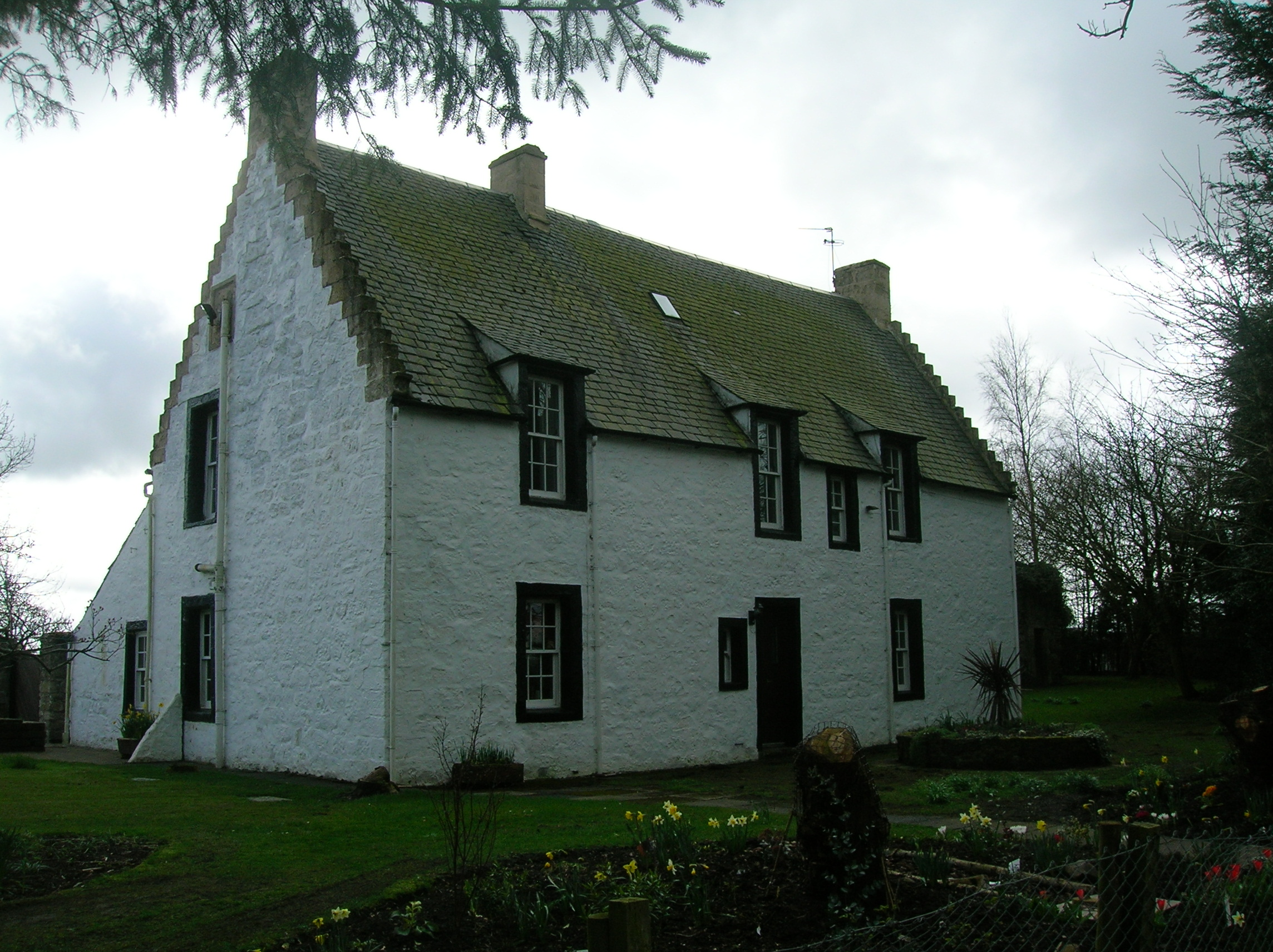 The 17th century Kilmaurs Place, park facing side, East Ayrshire, Scotland.